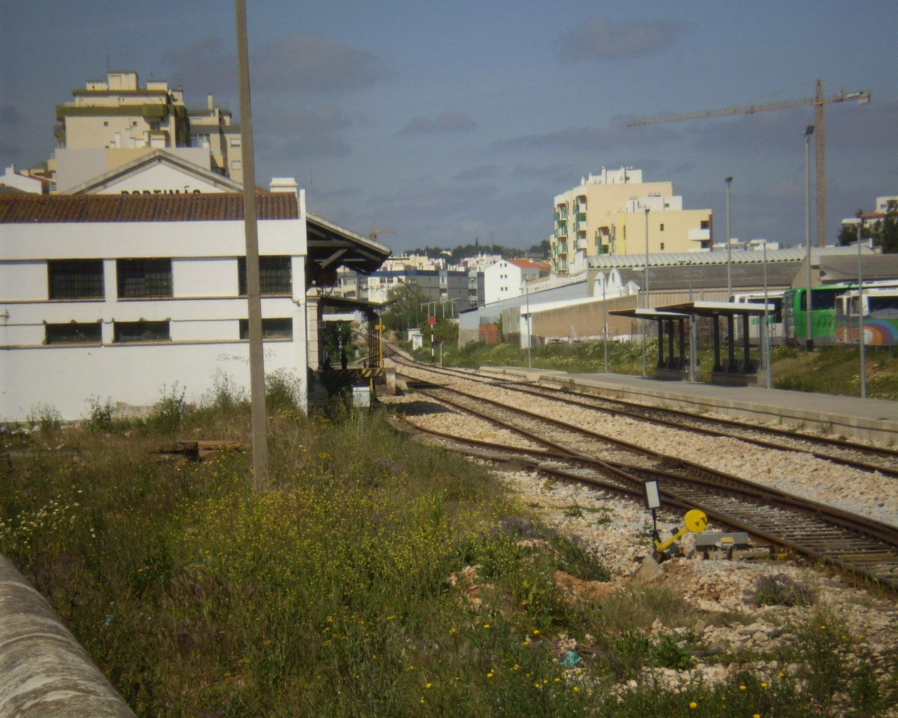 Eastern view of Portimão Railway Station, in Algarve, Portugal